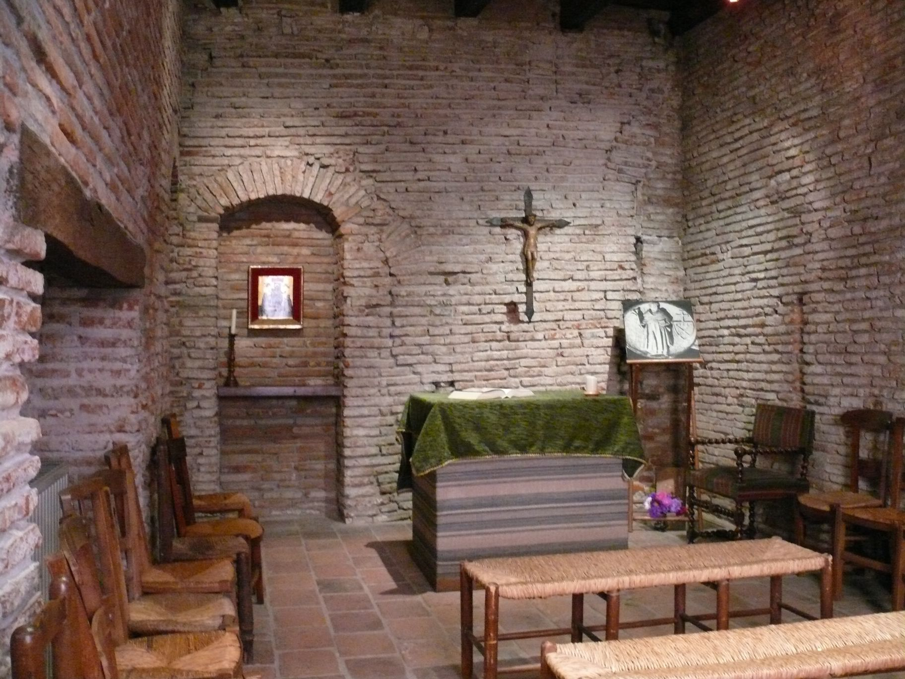 Saint-Dominique's room in Maison Seilhan, in Toulouse (Haute-Garonne, France).